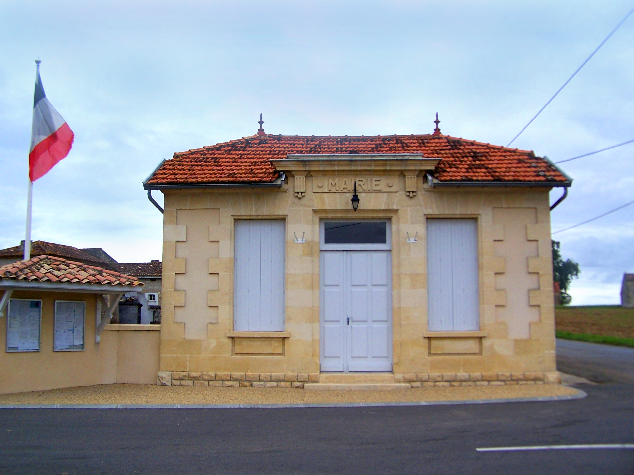 Saint Peter church of Martres (Gironde, France)